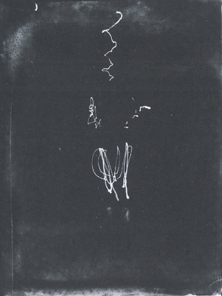 Made visible by Incandescent Bulbs Fixed to the Front